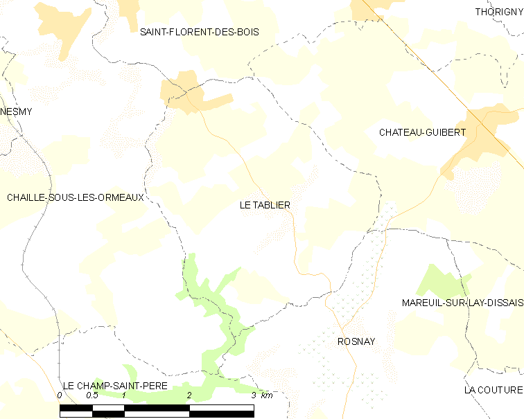 Map of French municipality Le Tablier